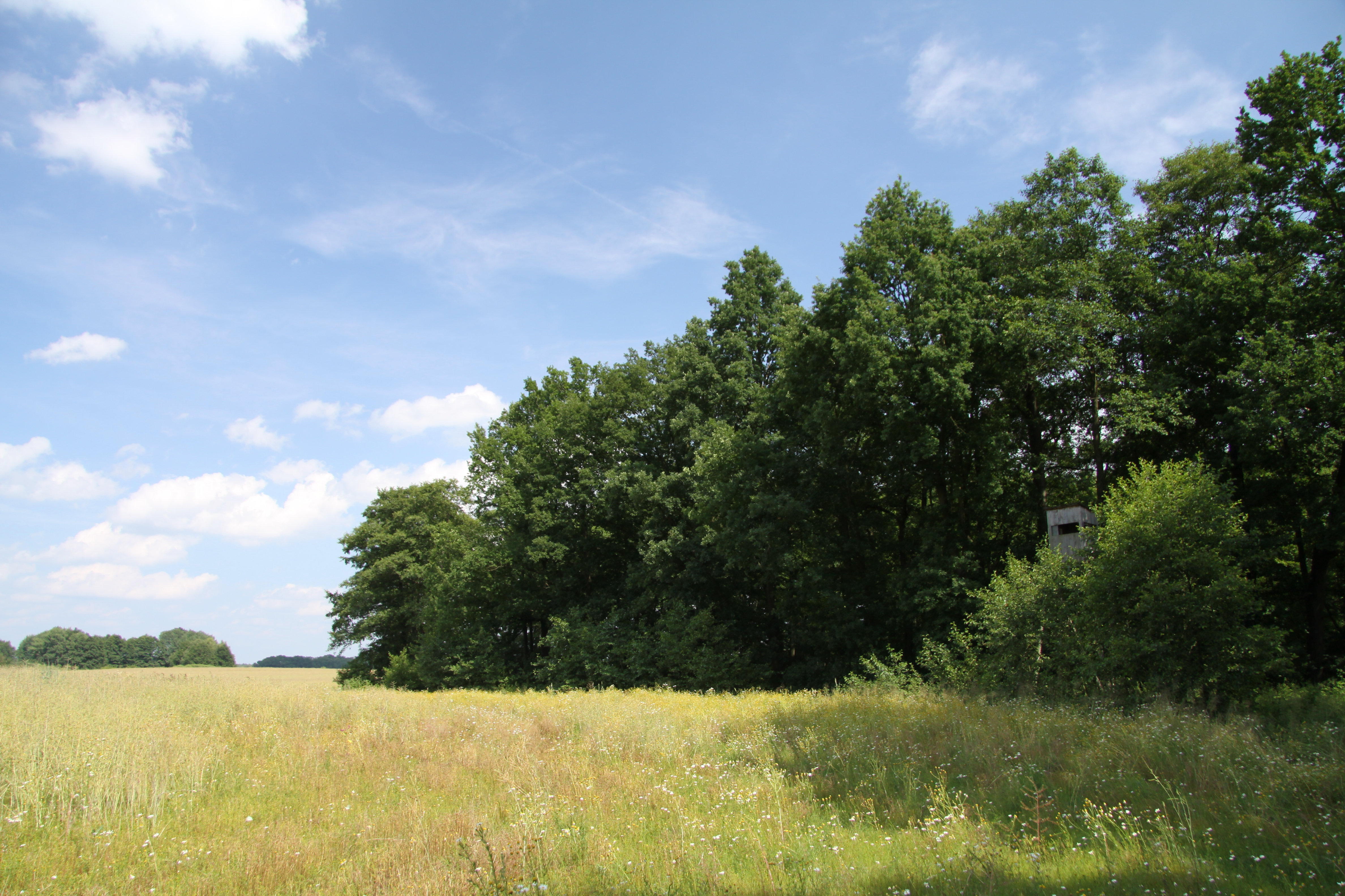 Nature reserve Olšina u Přeseky in Jindřichův Hradec, Czech Republic - Google Maps - Google Earth